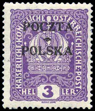 Postage stamp of Austro-Hungary overprinted Poczta Polska, 3 hellers, 1919.